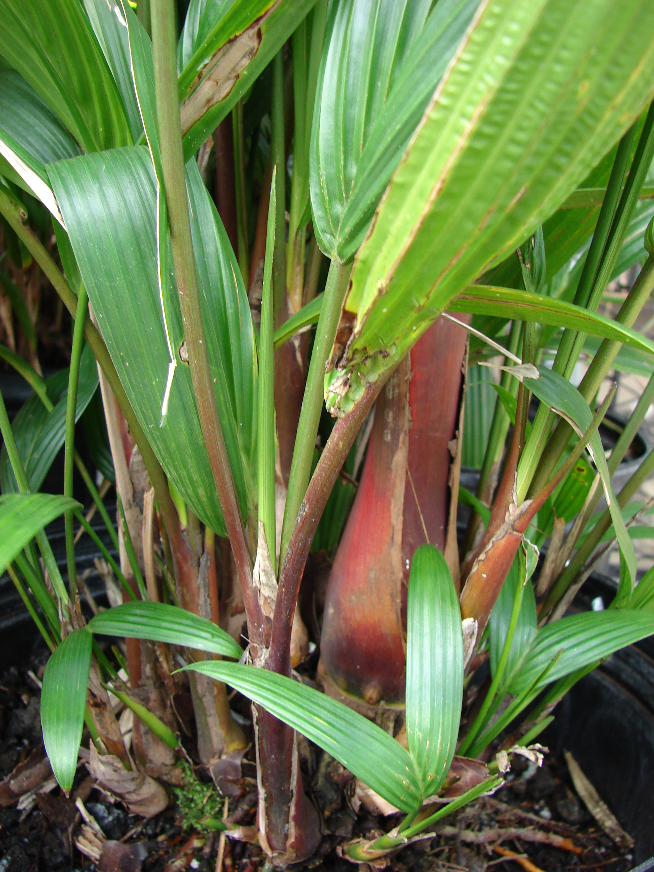 Cyrtostachys renda (habit). Location: Maui, Lowes Garden Center Kahului